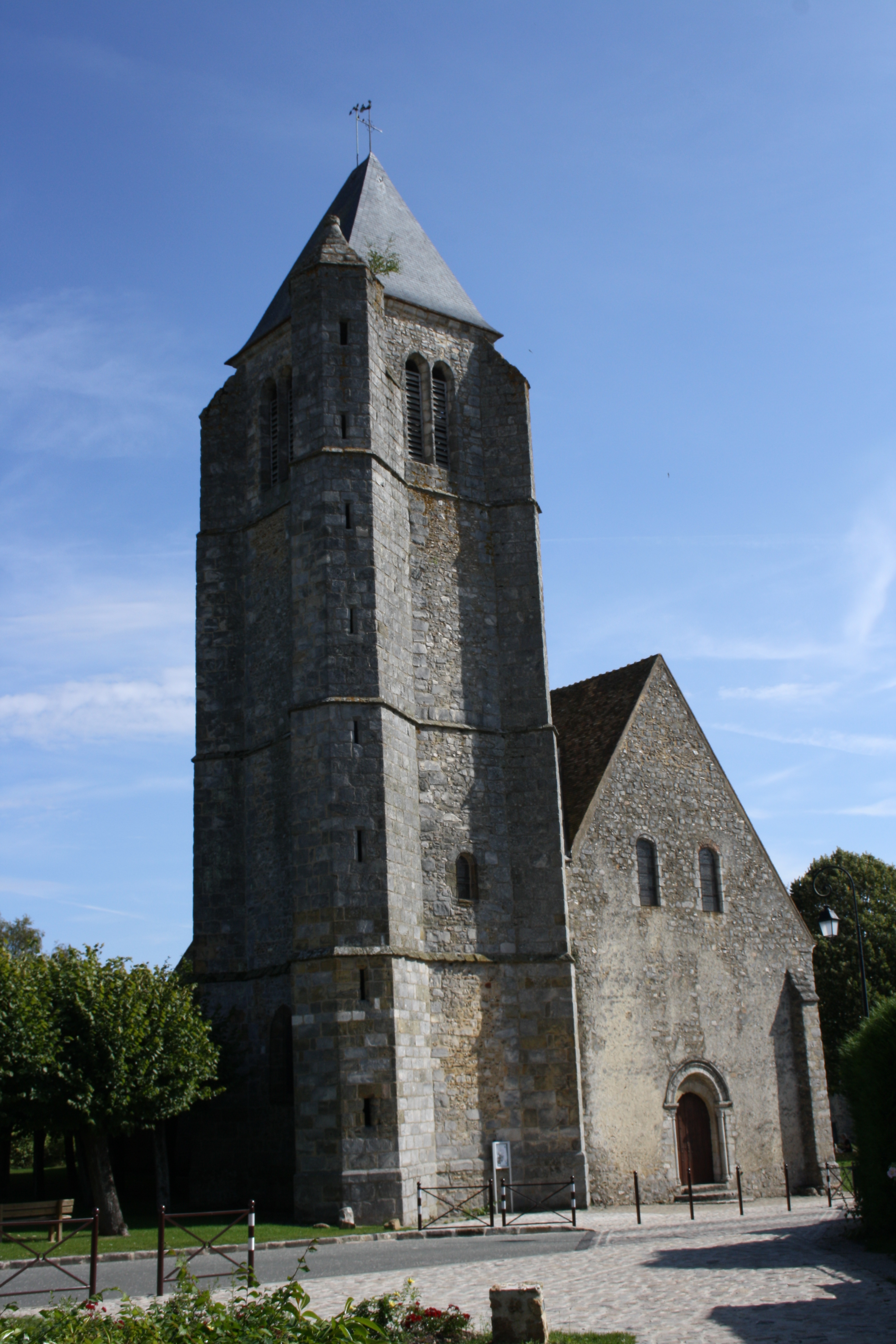 Saint-Pierre church in Longvilliers, France.